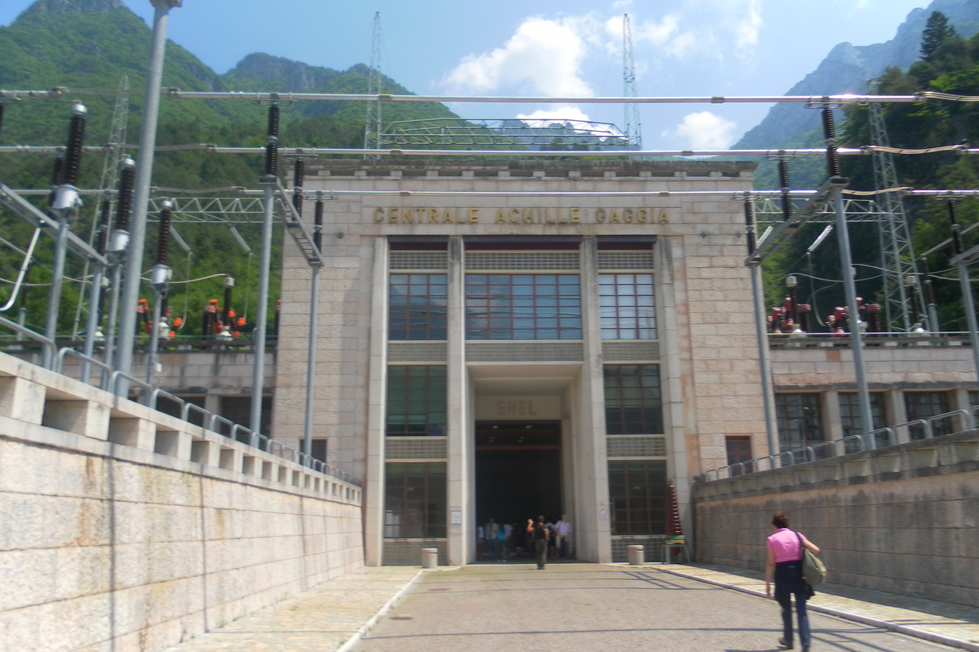 Centrale Achille Gaggia in Soverzene, Veneto (italy)